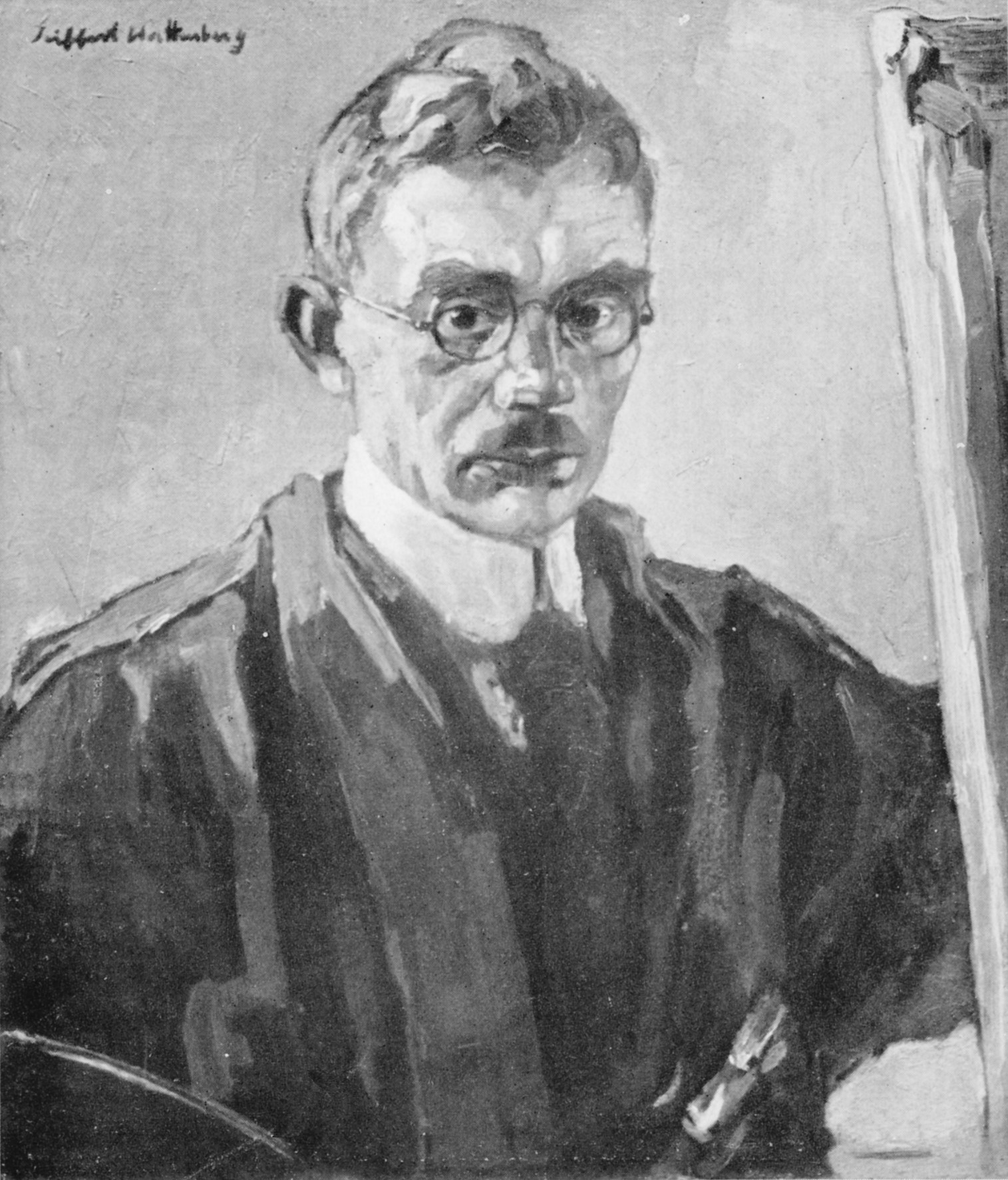 Seiffert-Wattenberg by himself